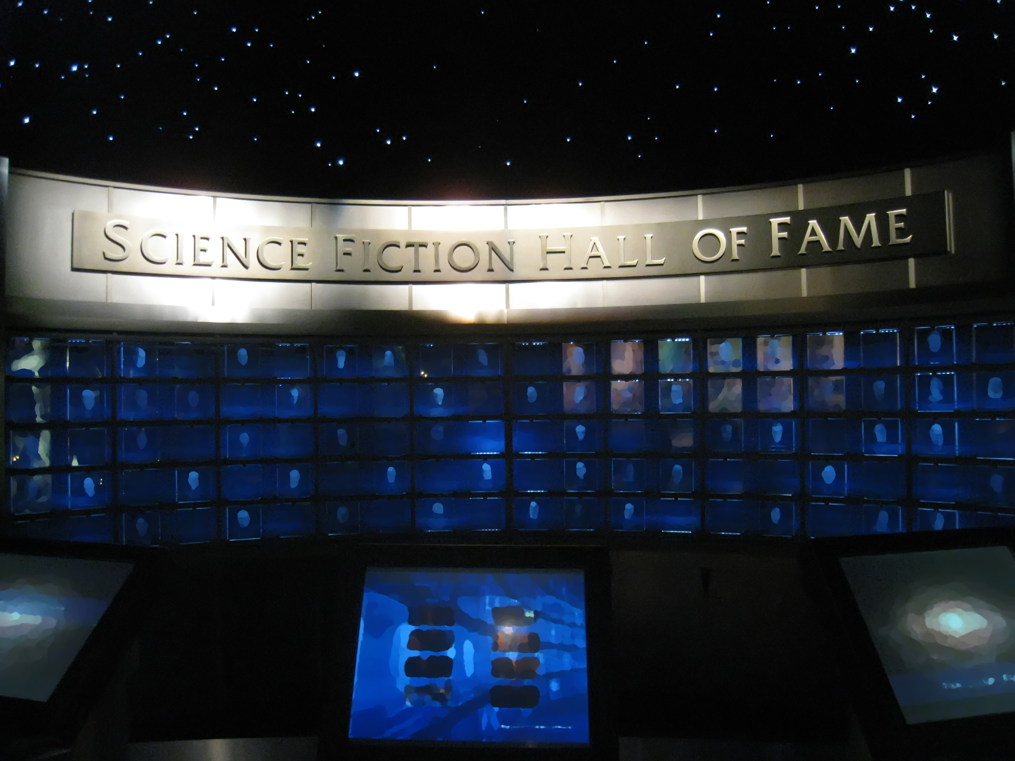 Science Fiction Hall of Fame (Note: all screens on photograph have been blurred)